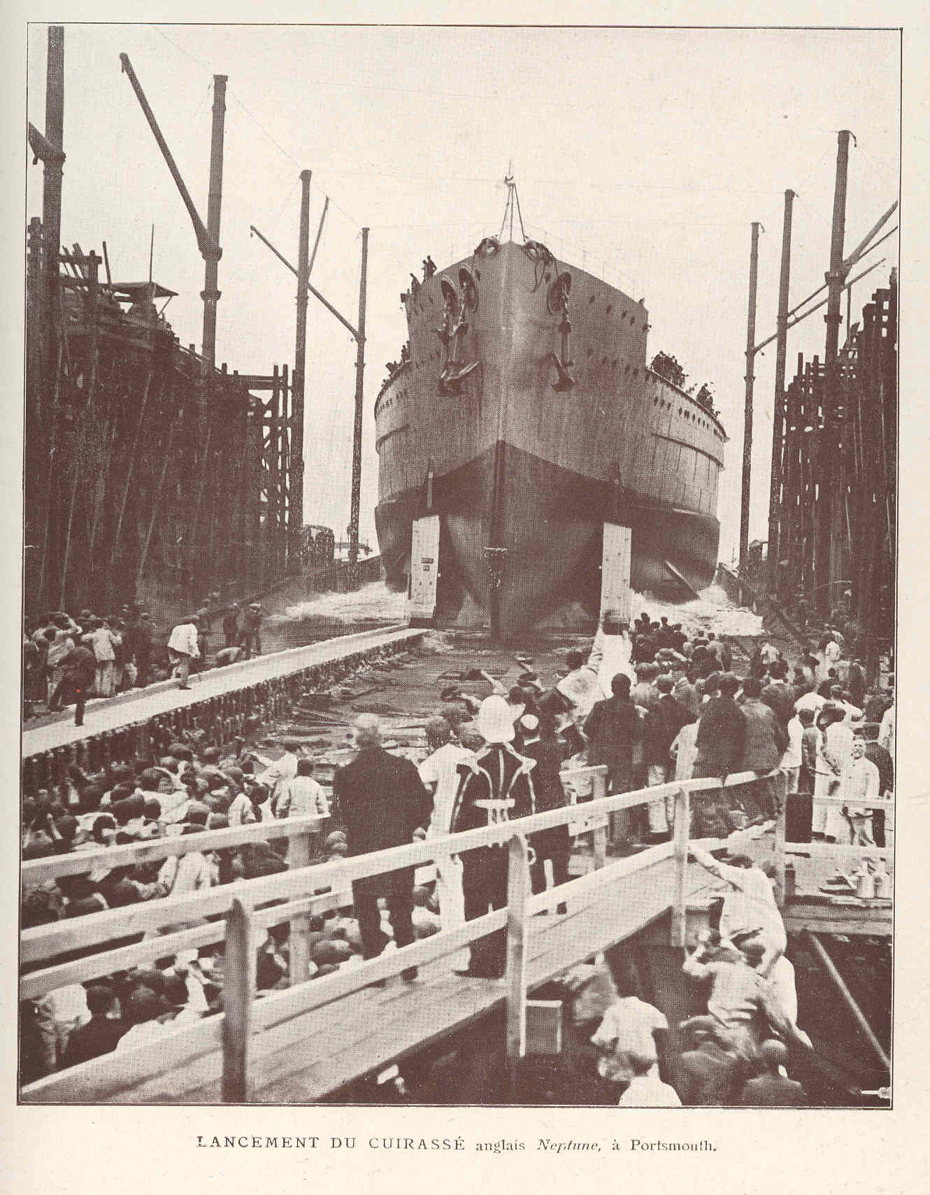 Subject: Ships--Launching, Battleships, Neptune (Ship), Portsmouth (England) Geographic Subject: England (Portsmouth) Tag: Vessels